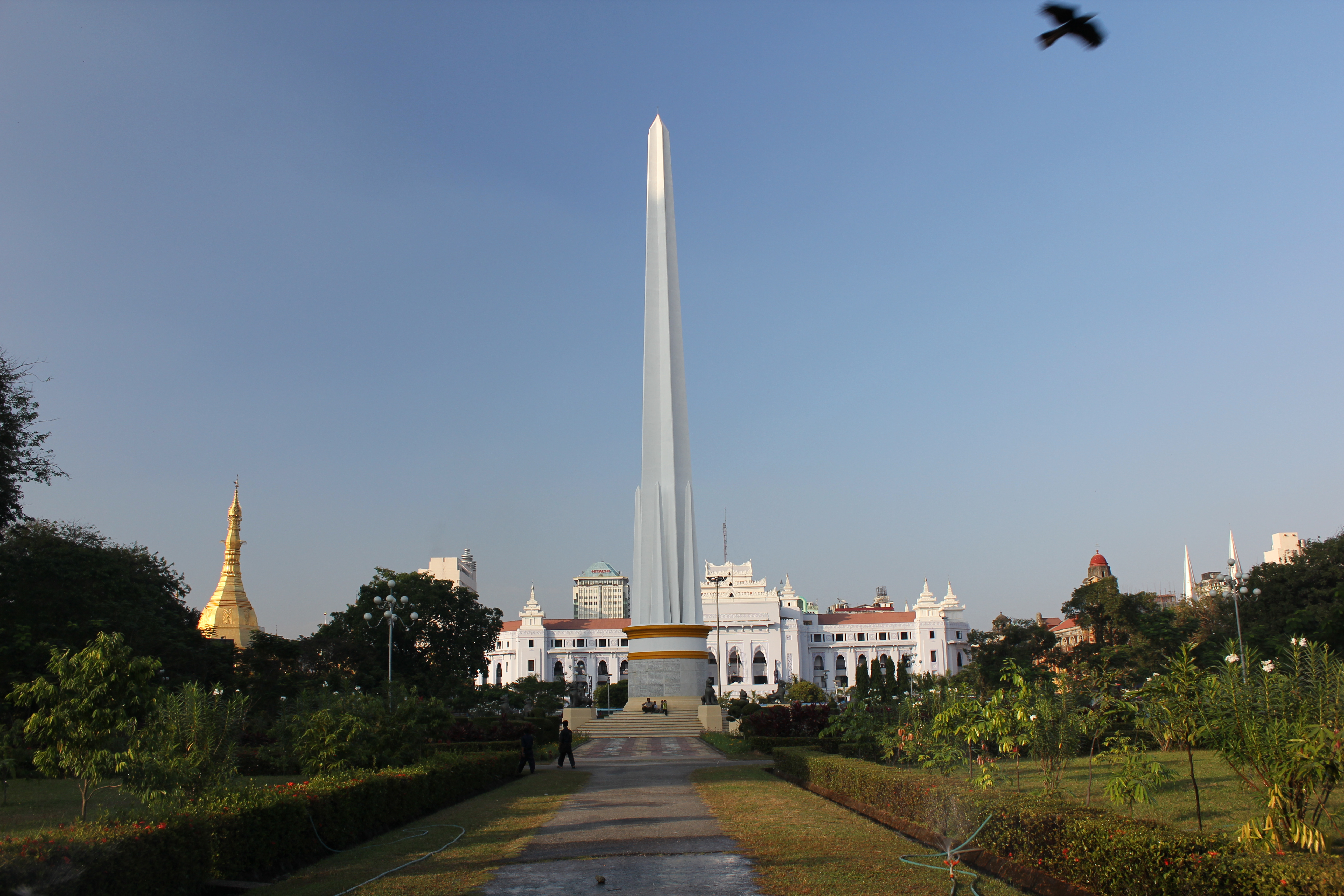 Stone Pillar of Independence Myanmar. (Left is Sule Pagoda and behind is Yangon cityhall.)မြန်မာဘာသာ: လွတ်လပ်ရေးကျောက်တိုင်။